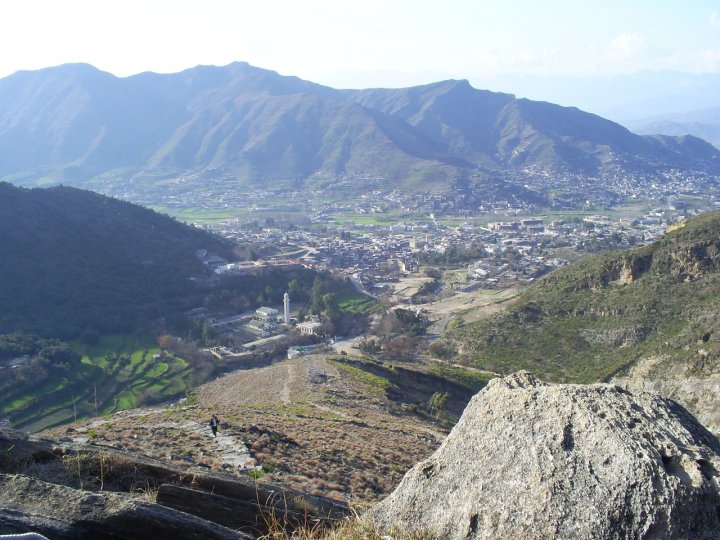 Saidu Sharif, Capital of Swat Valley, Pakistan